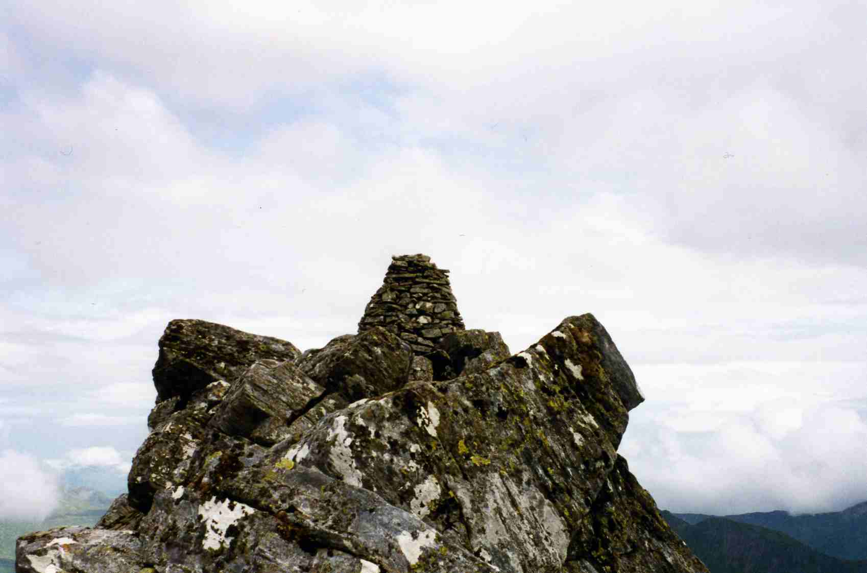 Personal picture taken by Mick Knapton